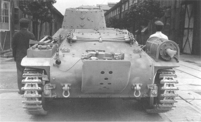 Rear view of prototype medium tank Type 97 Chi-Ni with removable ditching tail